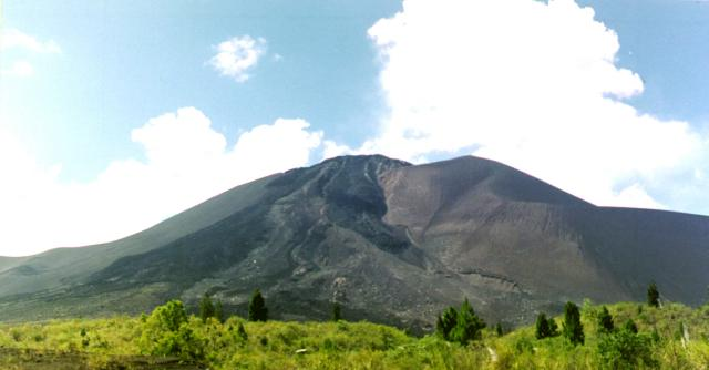 The small Soputan stratovolcano, seen here from the west, was constructed on the southern rim of the Quaternary Tondano caldera in northern Sulawesi Island. The youthful, largely unvegetated Soputan volcano is one of Sulawesi's most active volcanoes. During historical time the locus of eruptions has included both the summit crater and Aeseput, a prominent NE flank vent that formed in 1906 and was the source of intermittent major lava flows until 1924.